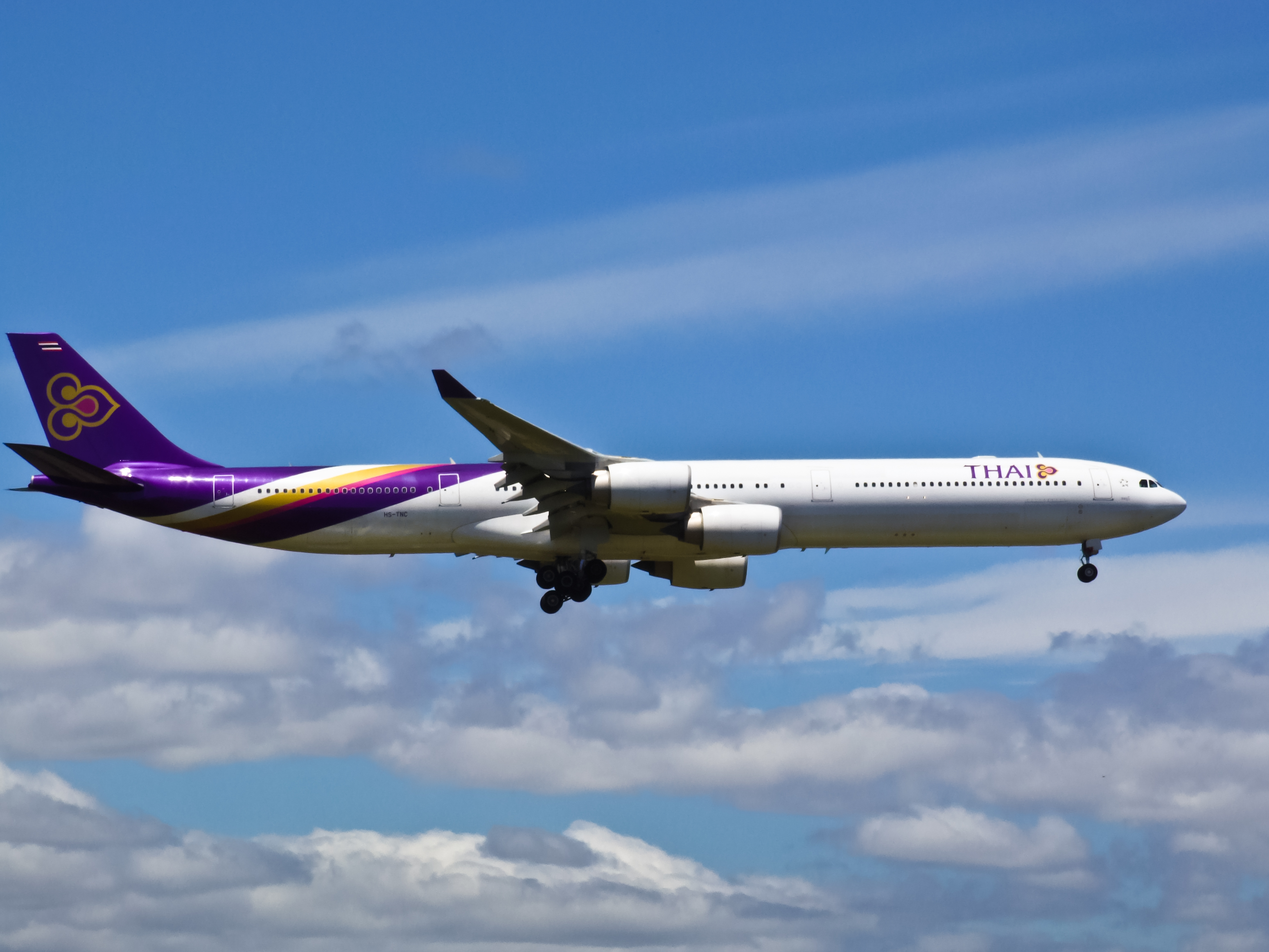 Thai Airways A 340-600 HS-TNC, Auckland, New Zealand